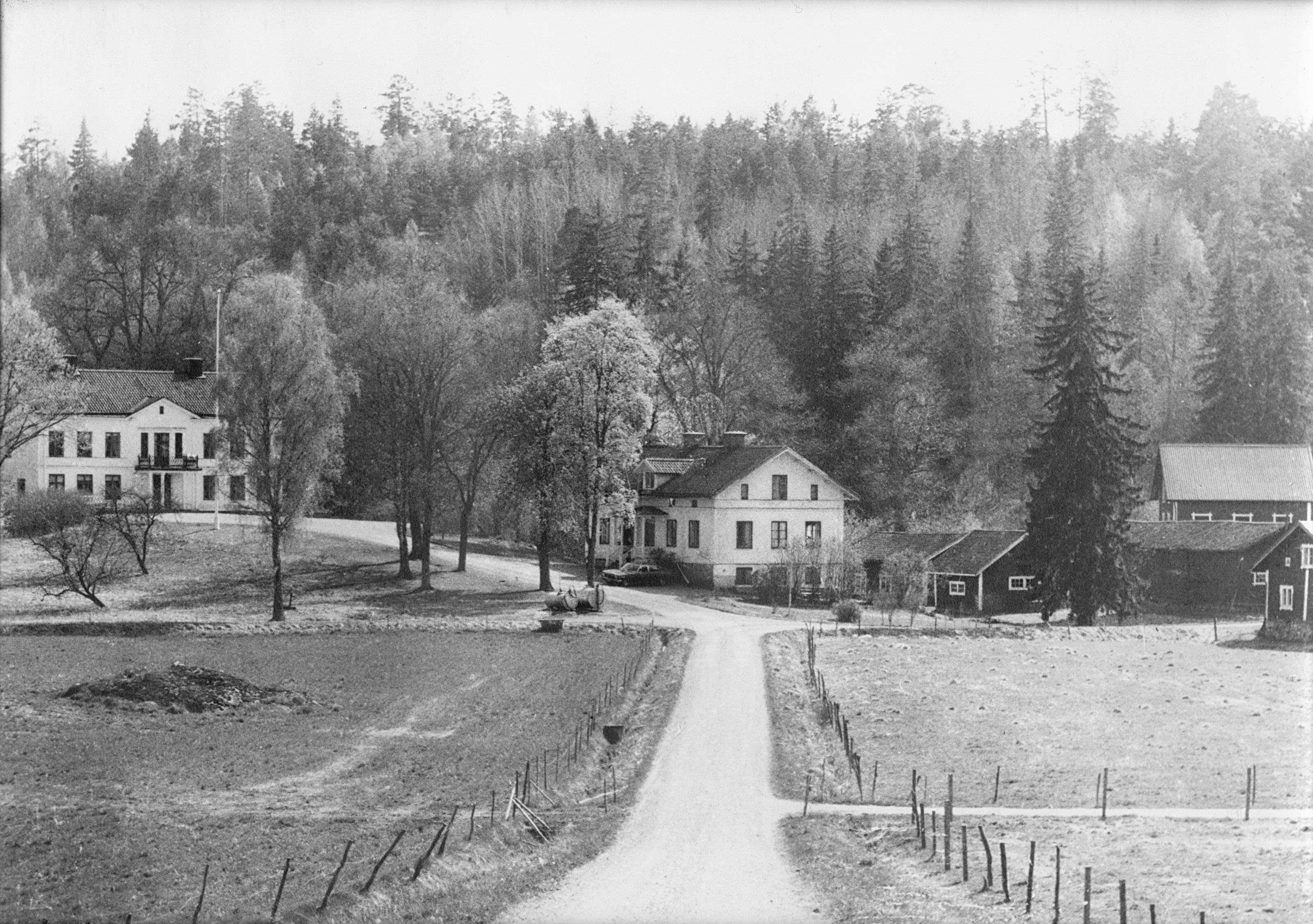 Ysunda manor